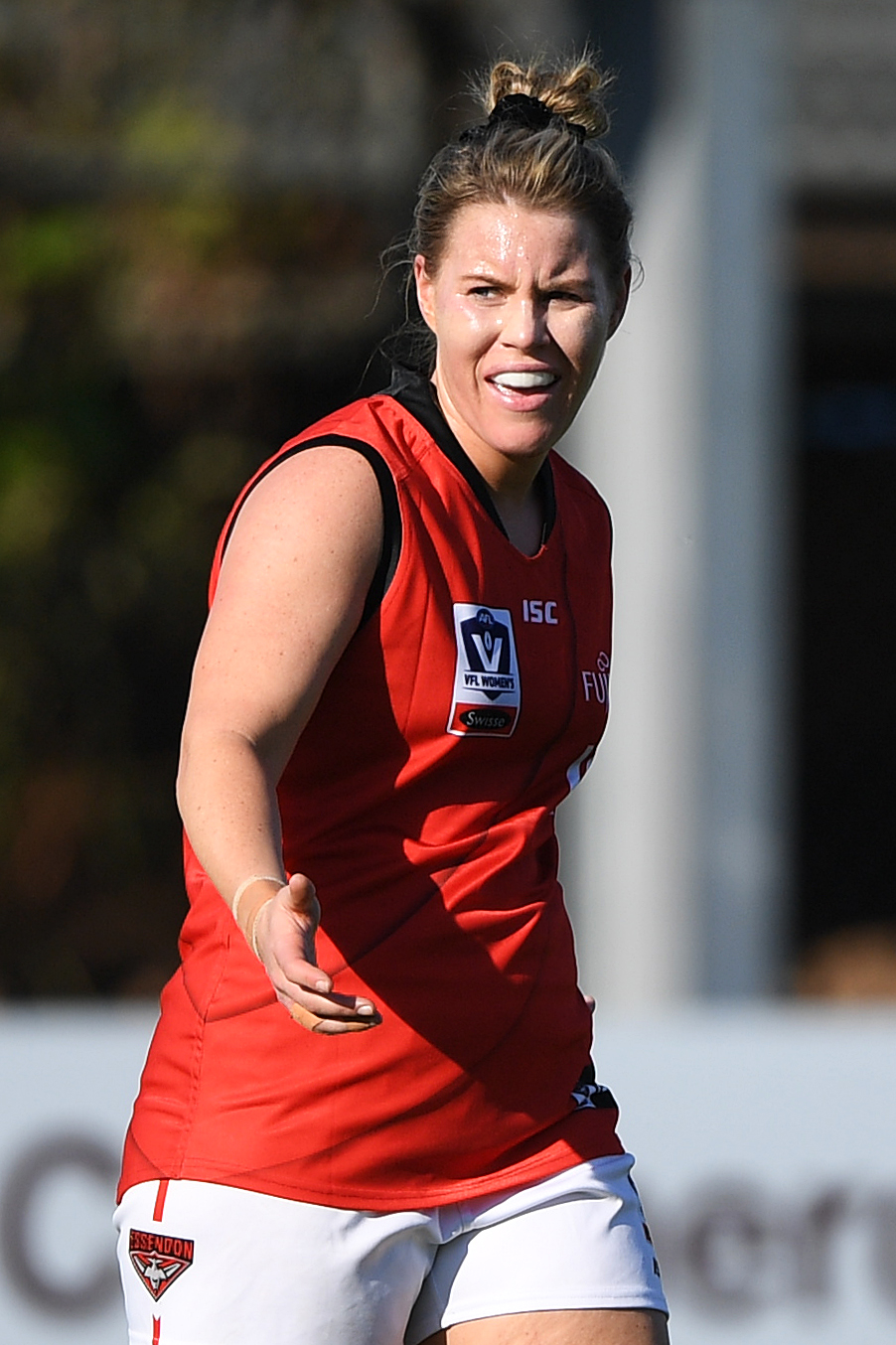 Hayley Trevean of Essendon during the 2019 VFLW Round 7 match between NT Thunder and Essendon at TIO Stadium on 22 June 2019 in Darwin, Australia.